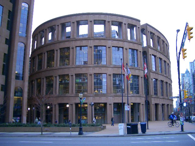 Vancouver Public Library